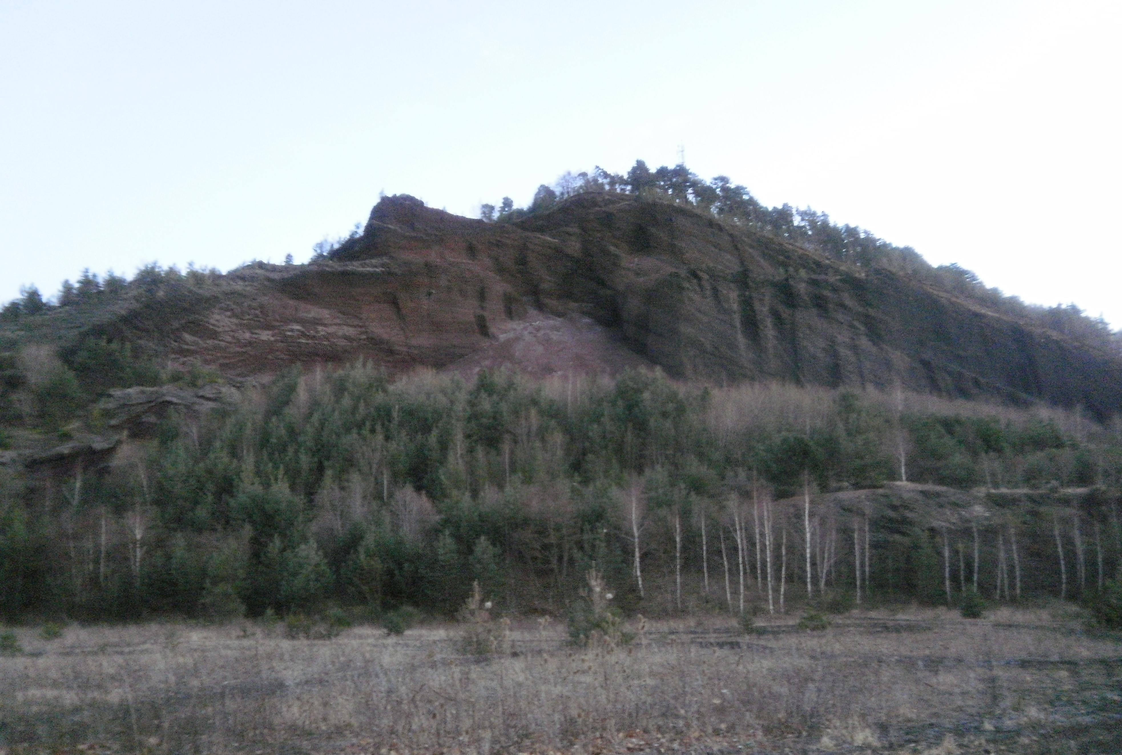 Puy de Gravenoire (commune of Royat, département of Puy de Dôme, region Auvergne, pays France) from Charade racing circuit